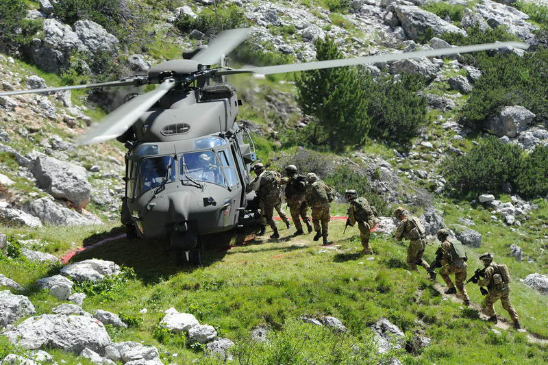 Soldiers of the Alpini Battalion "Feltre", 7th Alpini Regiment of the Italian Army enter an 4th Army Aviation Regiment NH90 helicopter during the Falzarego 2011 exercise.